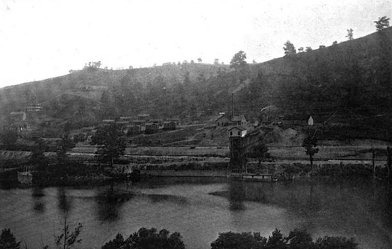 Original caption from page 660-661: "Plate XXVIII — Topography of the Monongahela Series and Mine of the Parker Run Coal & Coke Company (No. 15 on Map II) in the Sewickley coal, showing combination railroad and river tipple, at Rivesville, Marion County." West Virginia. Note that this image has been edited to remove a white defect from the left side of the rightmost house in the cluster of company housing.